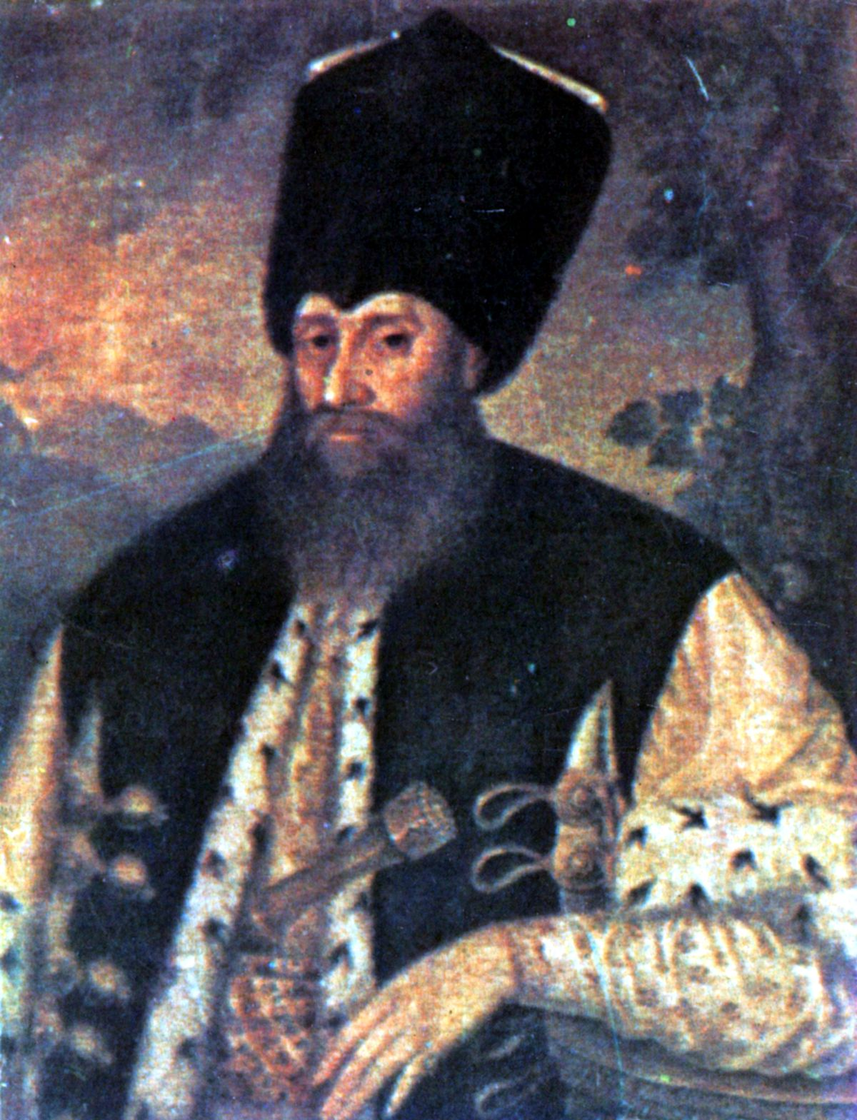 Painture at Historical and Ethnological Society Museum from Athens